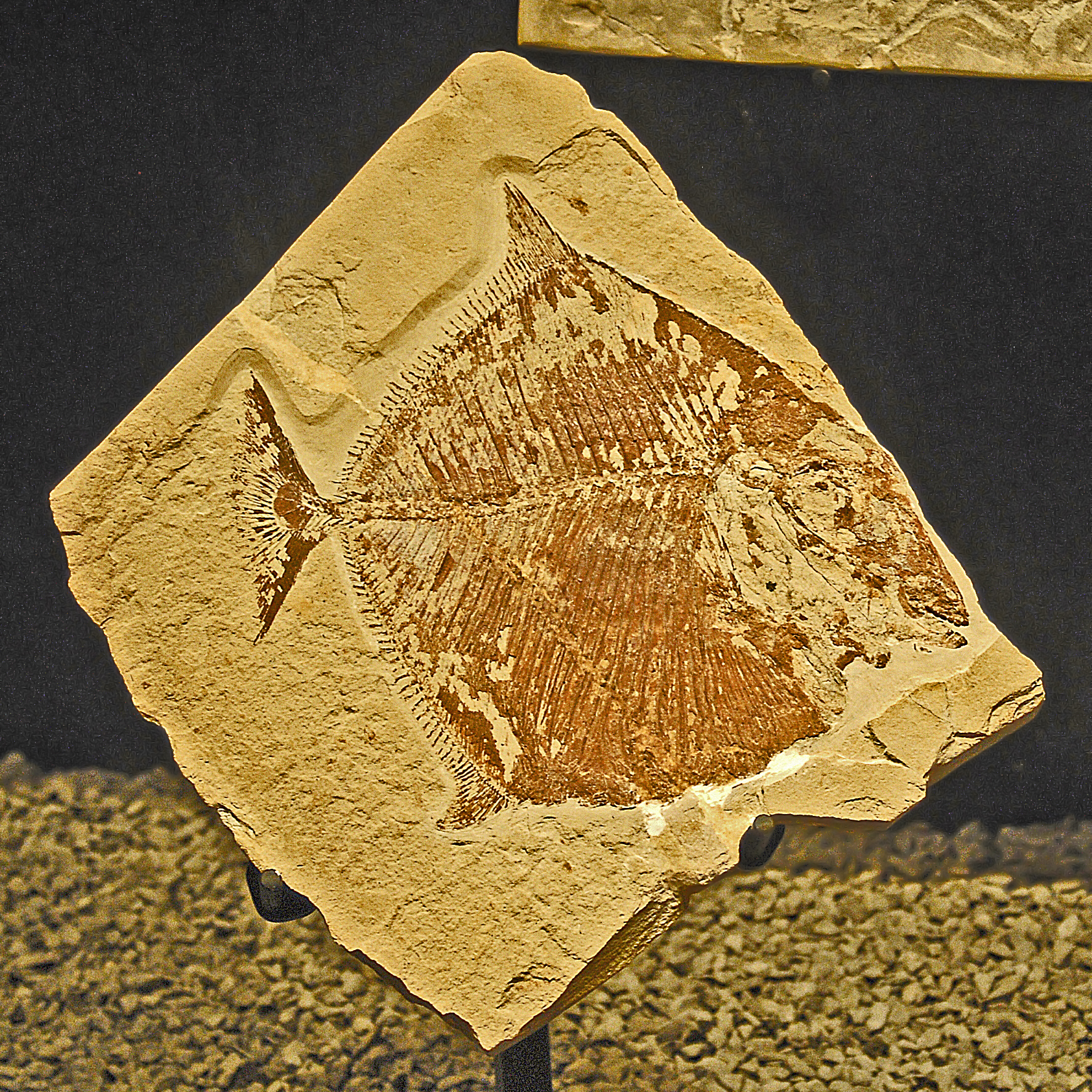 Palaeobalistum goedeli from Lebanon. Cretaceous (abt. 95 Ma). On display at the Museo Civico di Storia Naturale di Milano